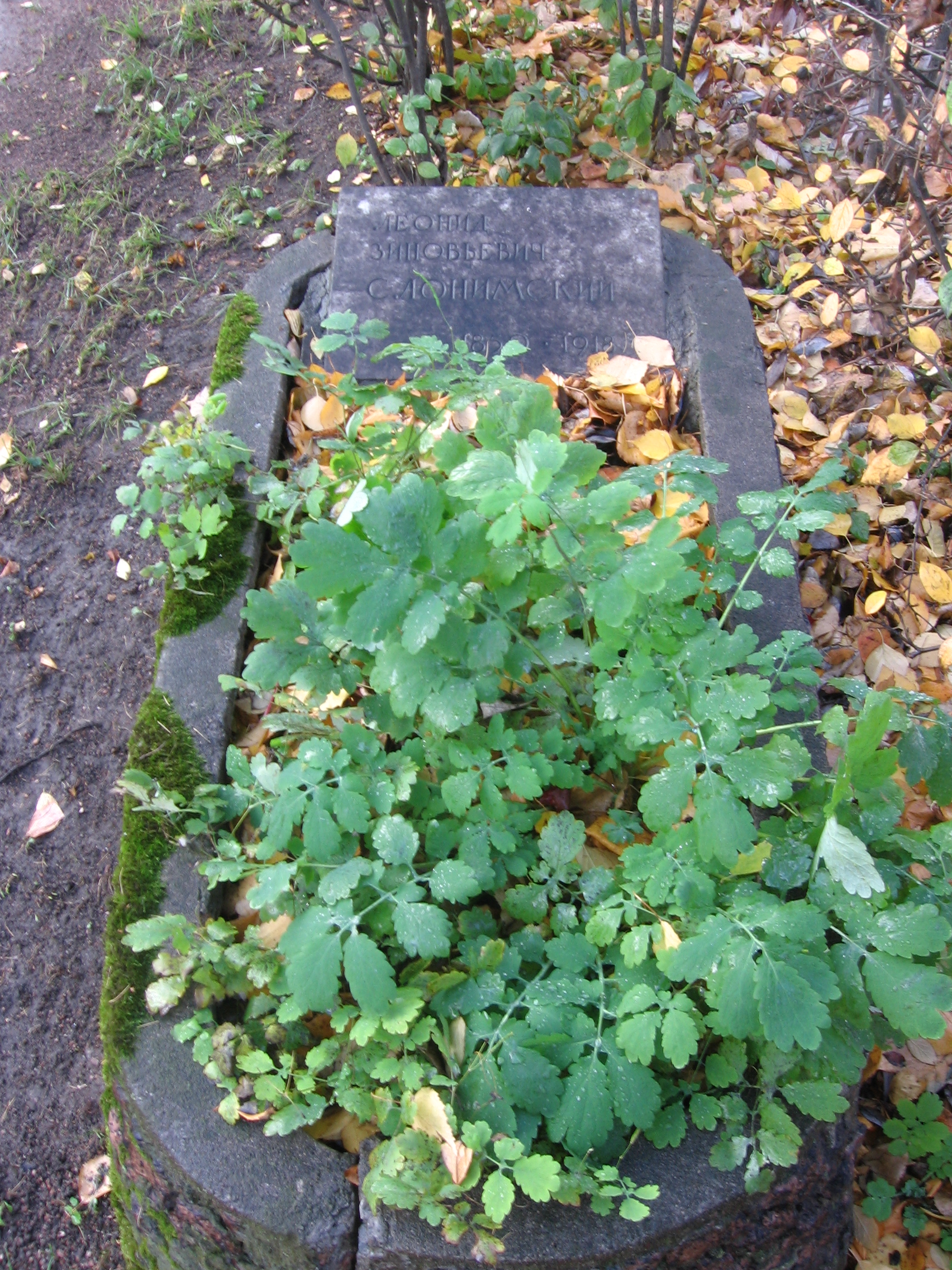 Grave of Ludwig Slonimsky